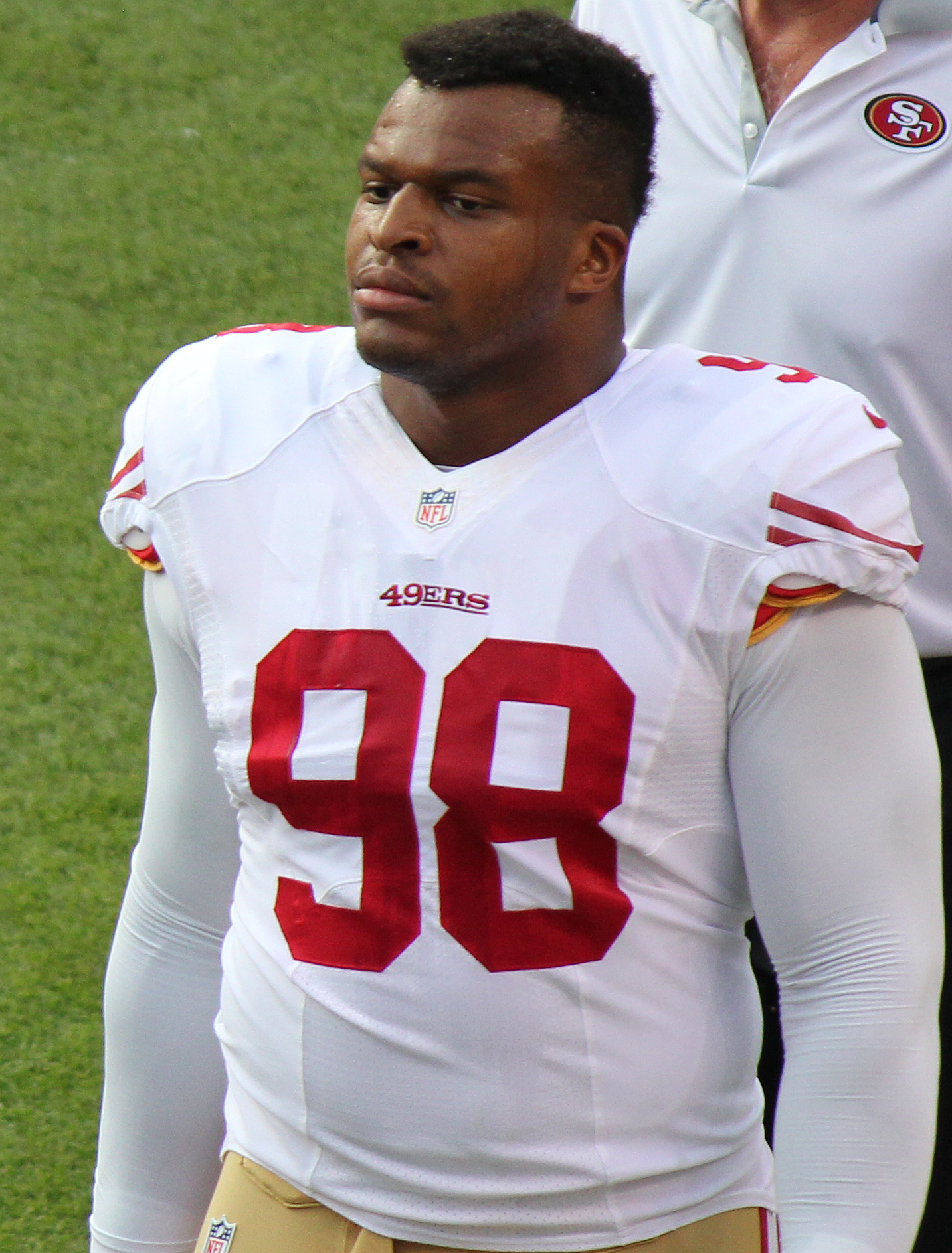 Lawrence Okoye, a player on the National Football League.